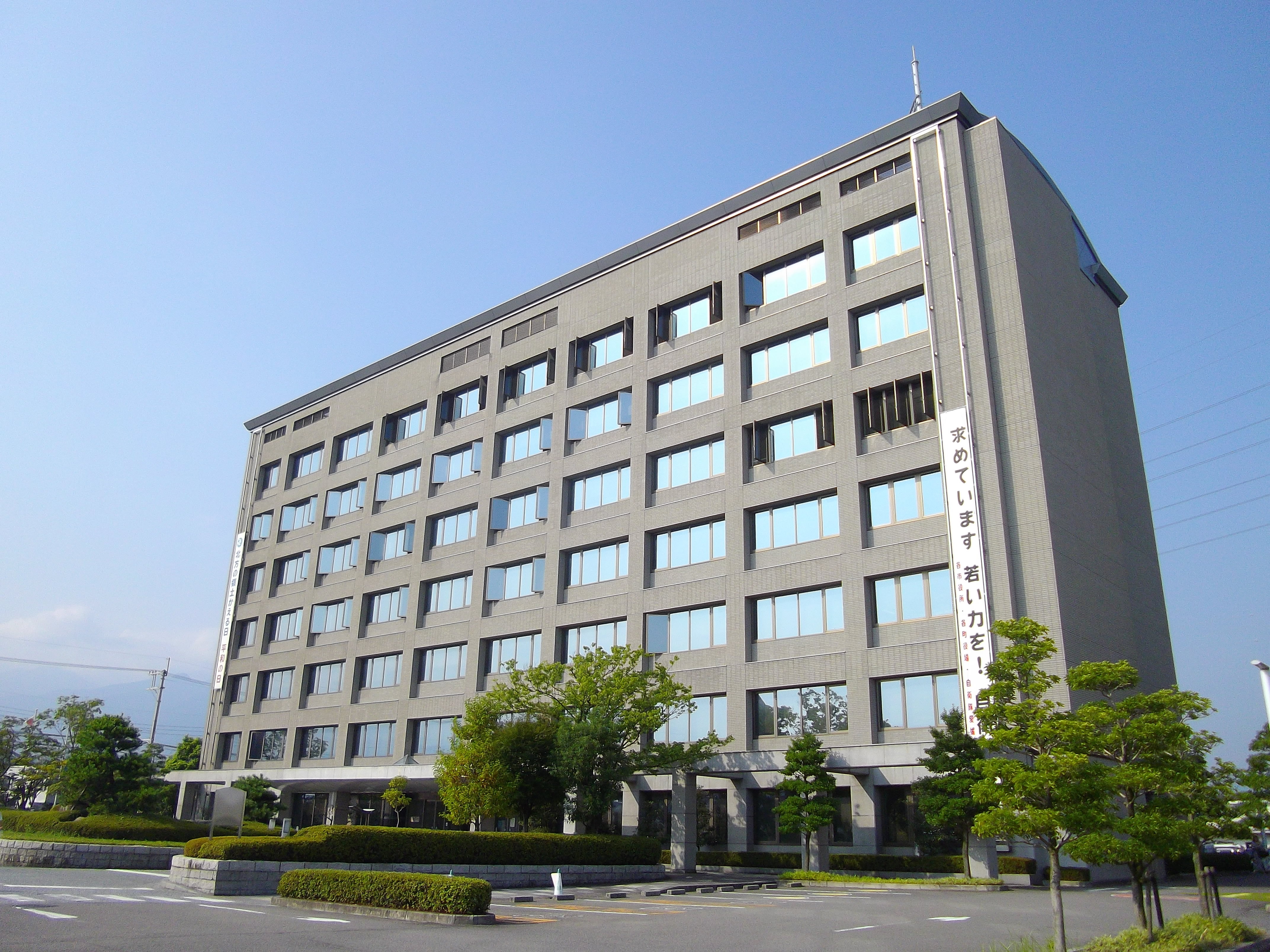 Ehime Prefectural Toyo Regional Office in Saijo city, Ehime prefecture, Japan.